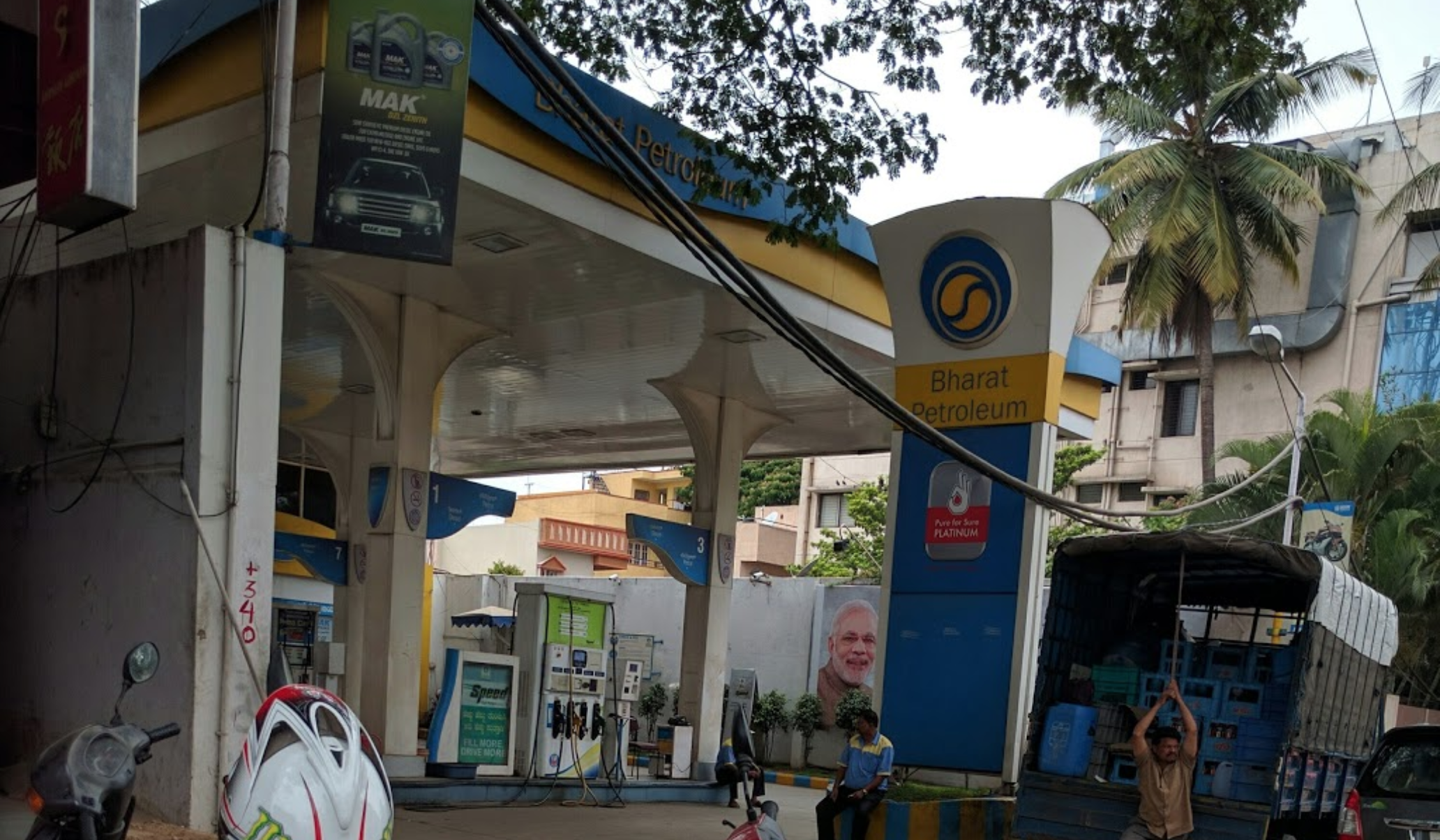 Bharat Petroleum Petrol Bunk near Modi Hospital, Basaveshwaranagar, Bangalore